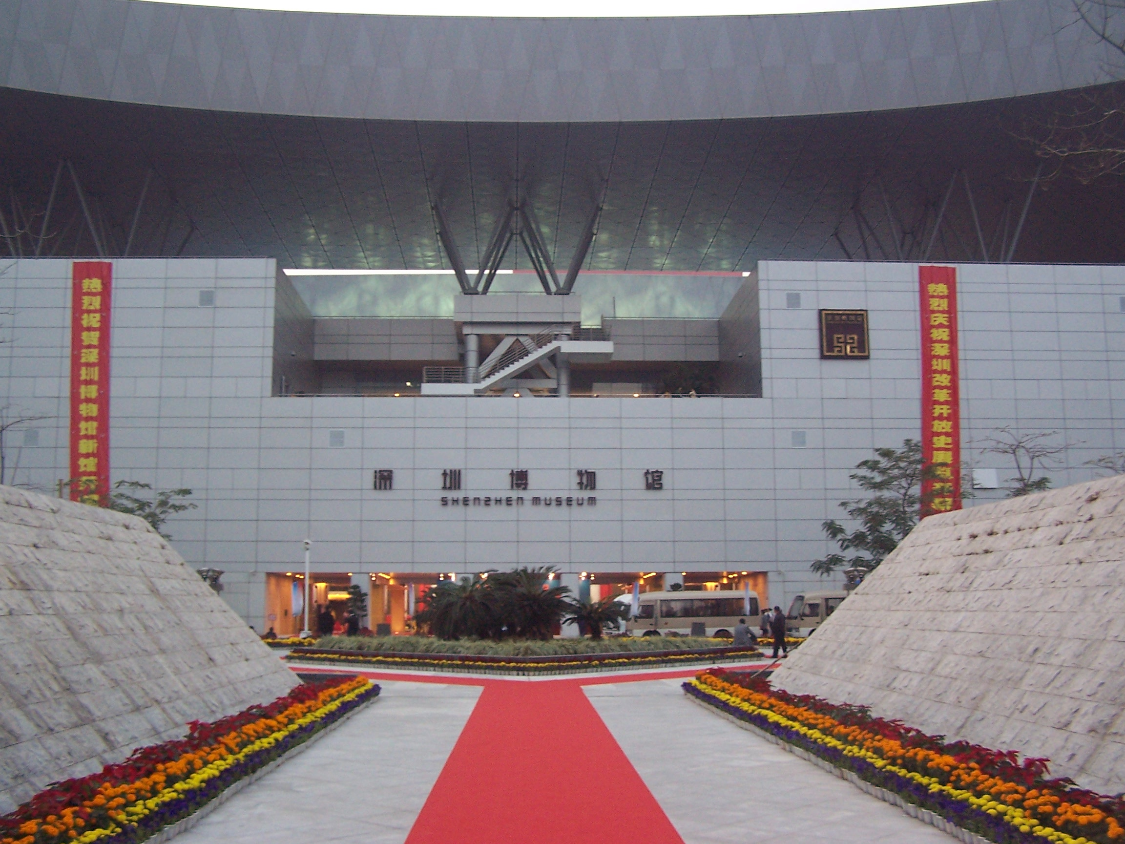 Shenzhen museum, China, the gate of new site.